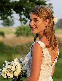 Jenna Bush poses for a photographer prior to her wedding to Henry Hager at Prairie Chapel Ranch near Crawford, Texas.